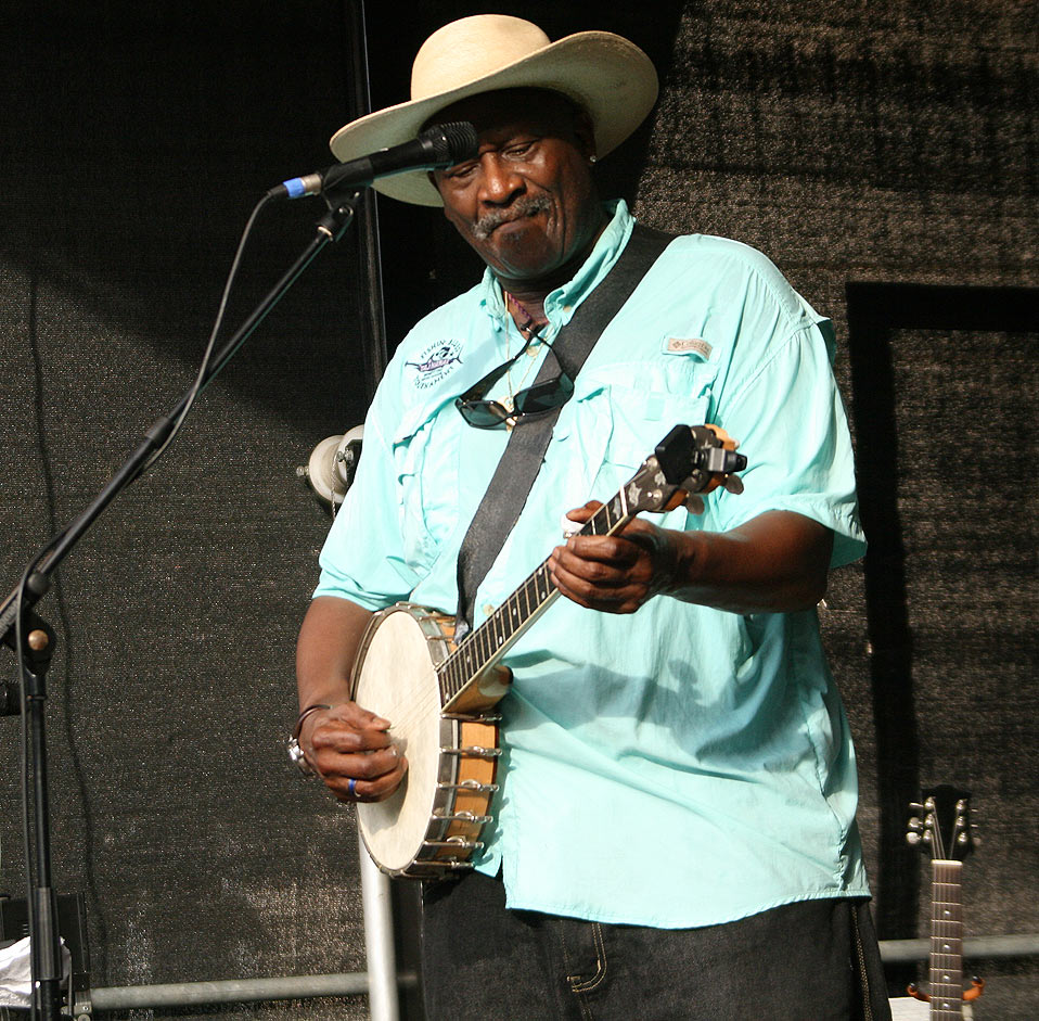 Blues musician Taj Mahal at the Museumsquartier in Vienna (Jazz-Fest Wien)